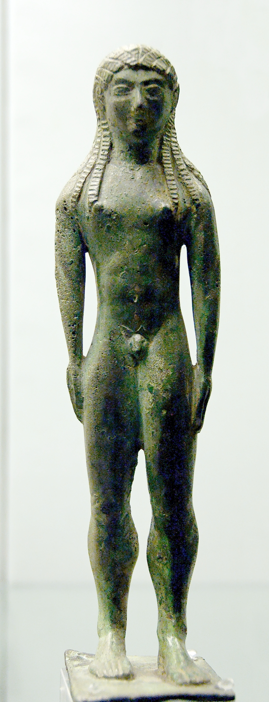 Naked youth with his arms at his sides, votive statuette. Bronze, made at Chiusi, 550–530 BC. From Chiusi.